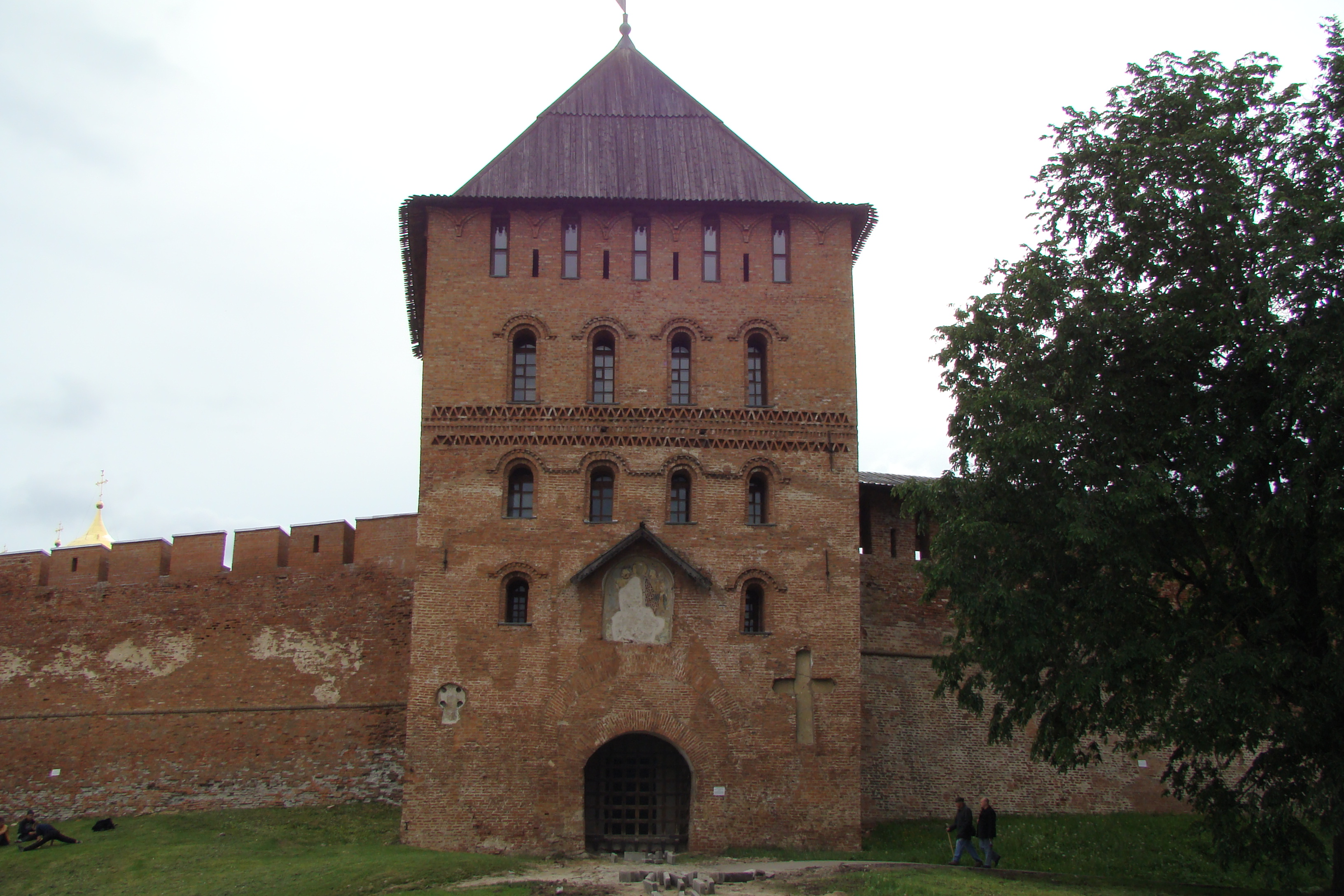 Vladimirskaya tower, Novgorod Detinets